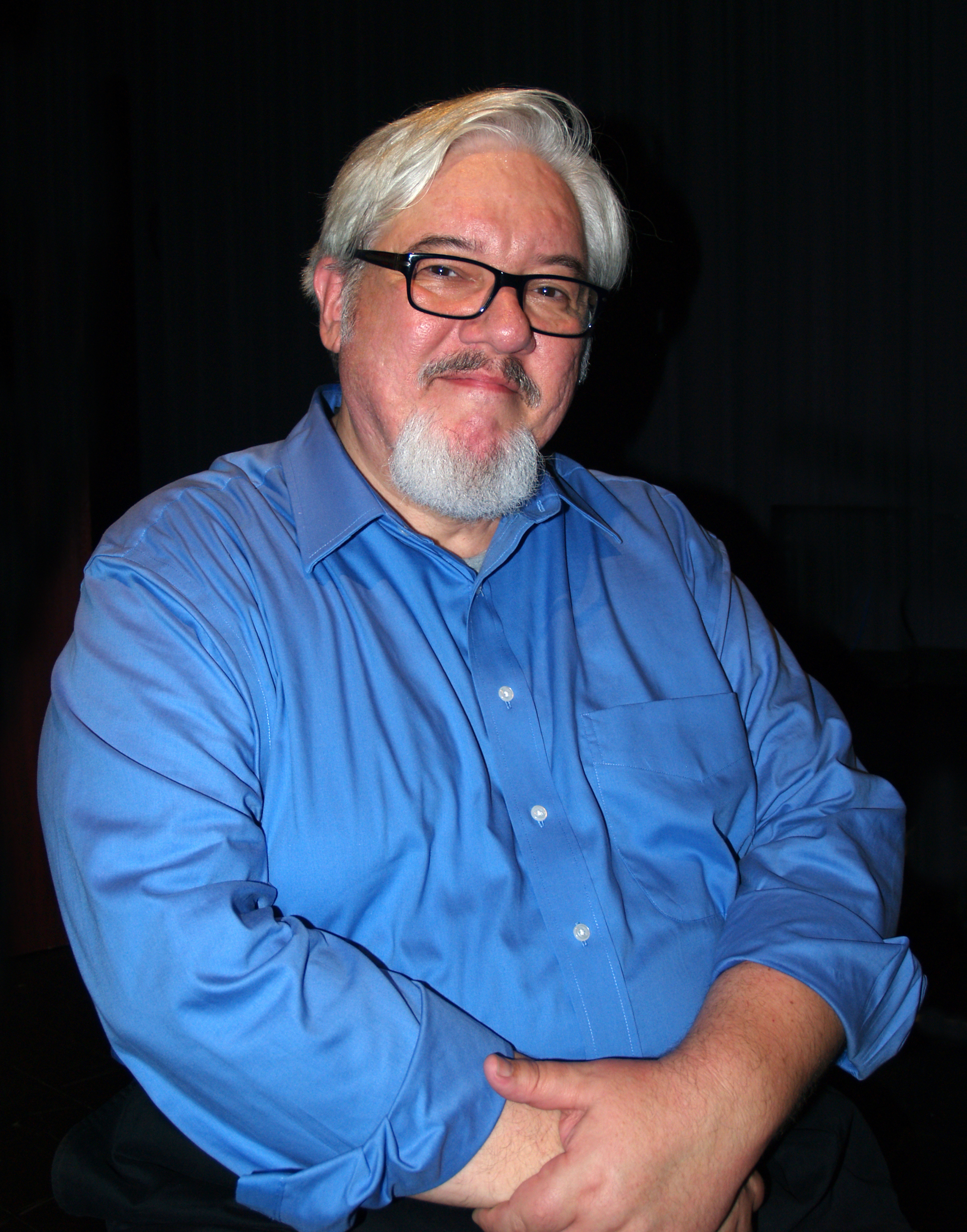 American animator Tom Sito during a September 16, 2013 lecture on the history of computer animation at Manhattan's SVA Theatre, which is part of Sito's alma mater, the School of Visual Arts. The lecture was followed by a signing for Sito's then-new book, Moving Innovation: A History of Computer Animation. This photo was created by Luigi Novi. It is not in the public domain, and use of this file outside of the licensing terms is a copyright violation.